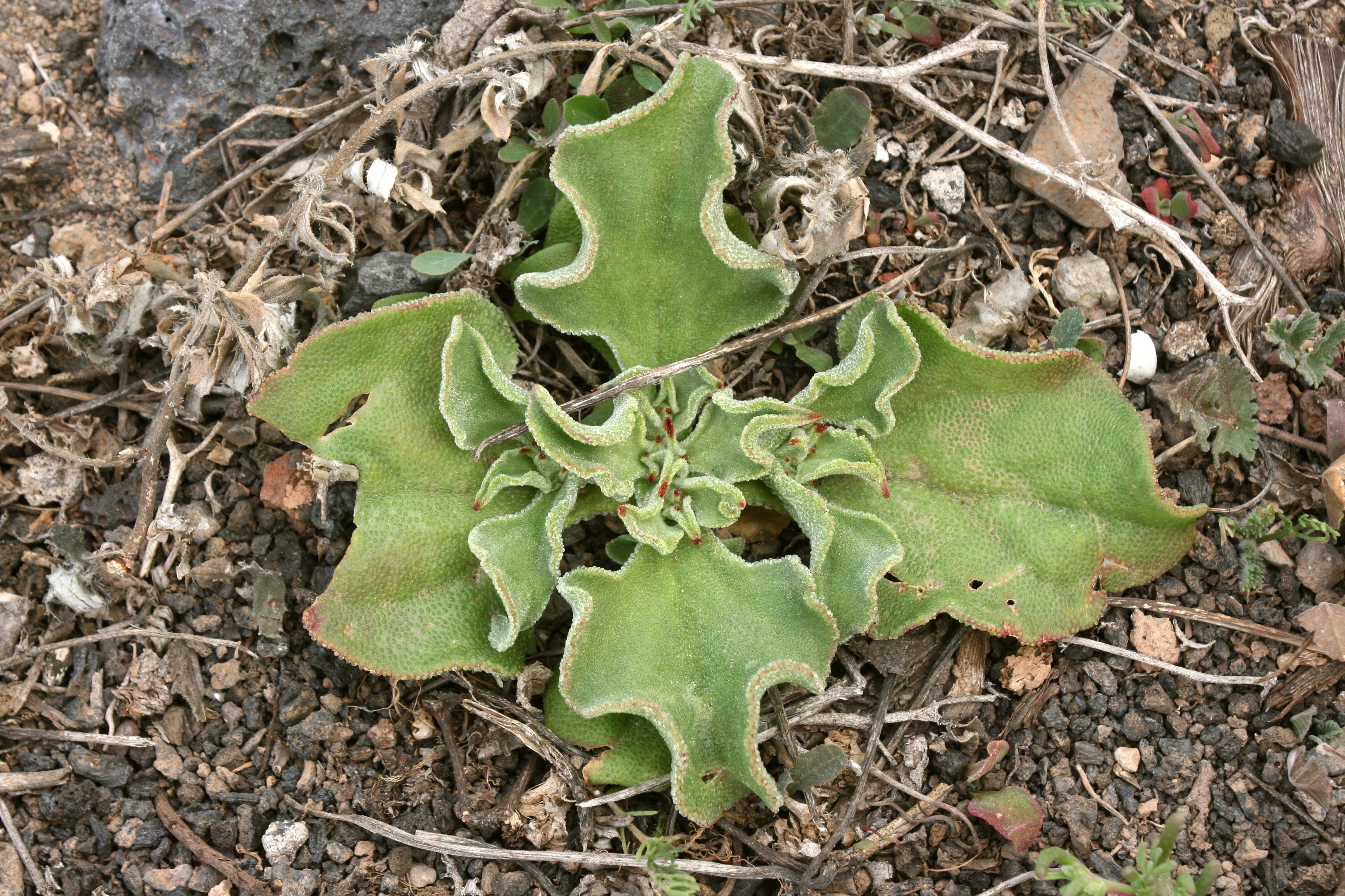 Mesembryanthemum crystallinum growing at LZ-702 in Las Casitas, Yaiza, Lanzarote, Canary Islands